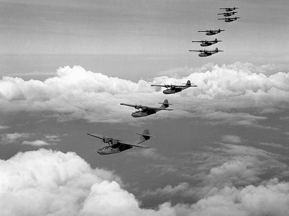 Nine U.S. Navy Consolidated PBY-5 Catalina patrol bombers fly in formation in the Hawaiian area, circa November 1941. These planes, from Patrol Squadron 14 (VP-14), arrived on Oahu on 23 November 1941. The plane closest to the camera is "14-P-1", which on 7 December 1941 was flown by Ens. William P. Tanner during the attack with USS Ward (DD-139) on a Japanese midget submarine. Most of the other planes were destroyed at Naval Air Station Kaneohe Bay.